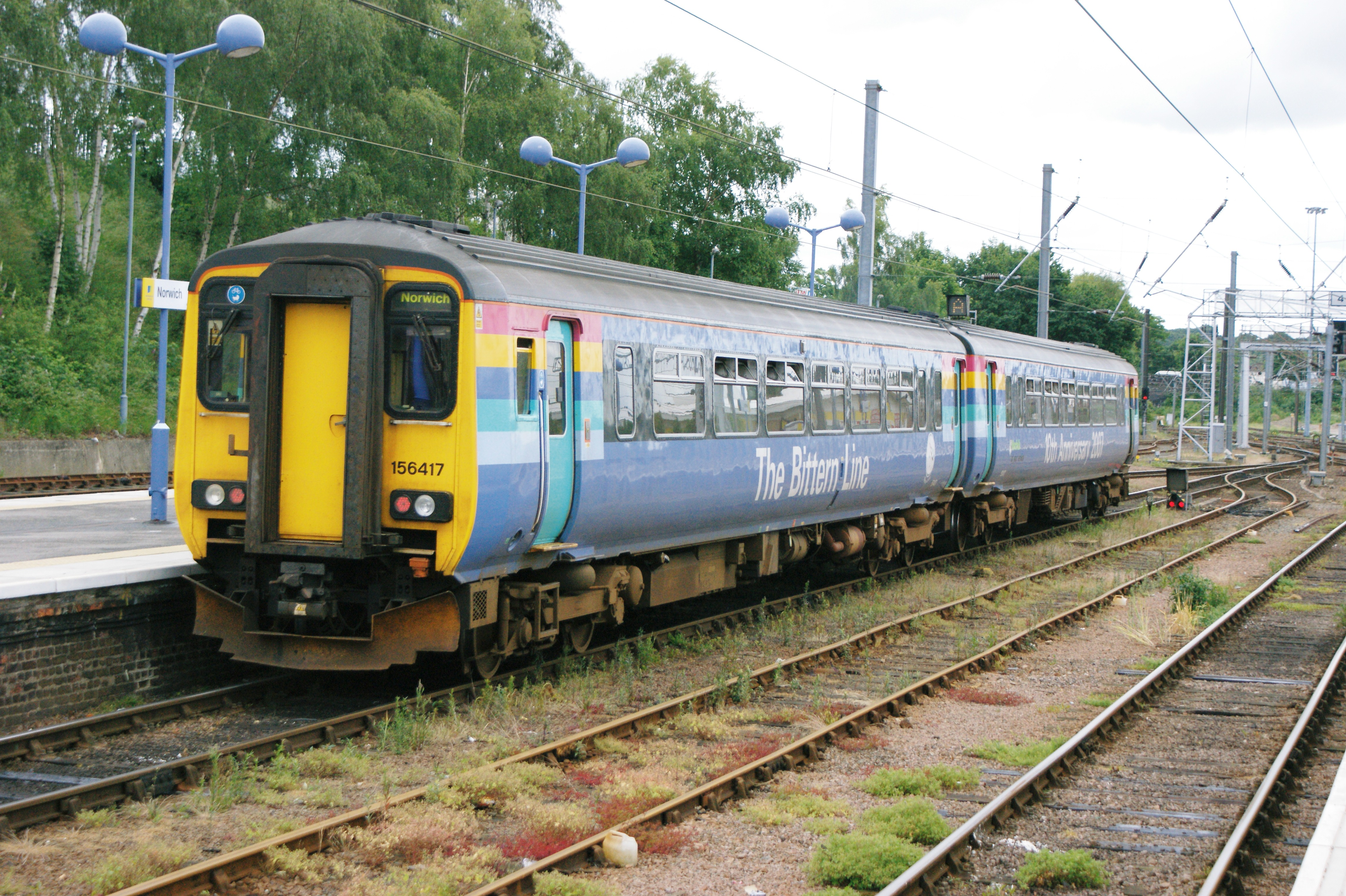 Metro-Cammell Class 156 "Super Sprinter" 2-car dmu No.156 417 of National Express East Anglia in debranded "One" livery (but retaining stripes) with slogan "The Bittern Line" leaving Norwich Thorpe for Yarmouth, 06/08.